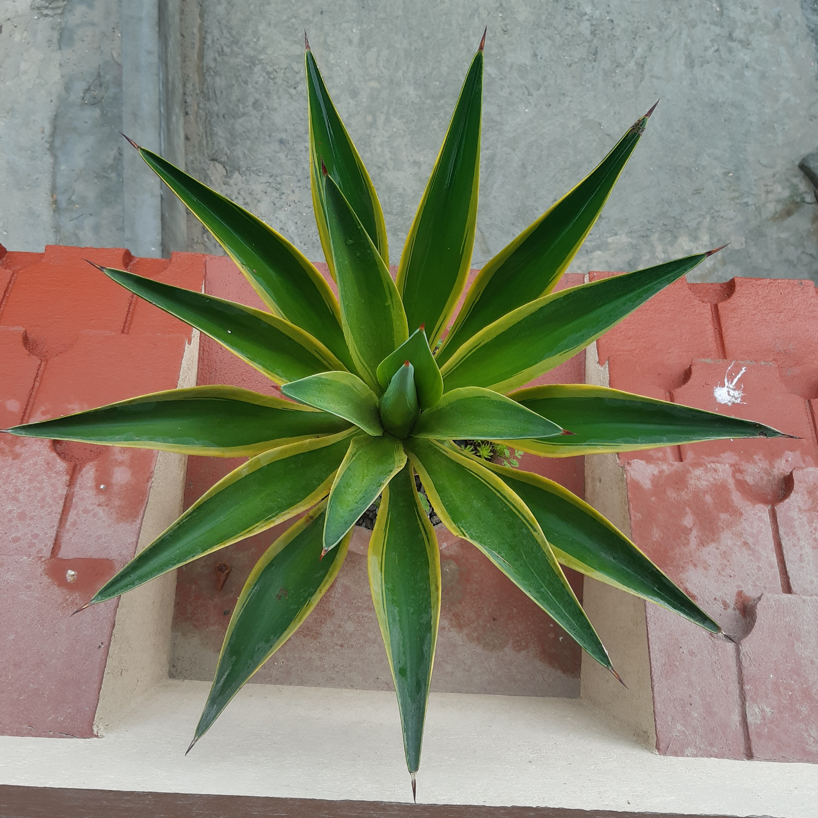 Agave azul Plant